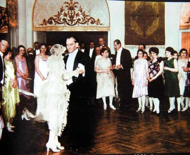 Atatürk dancing with Nebile, one of his adopted daughters, at her wedding on January 17, 1929.